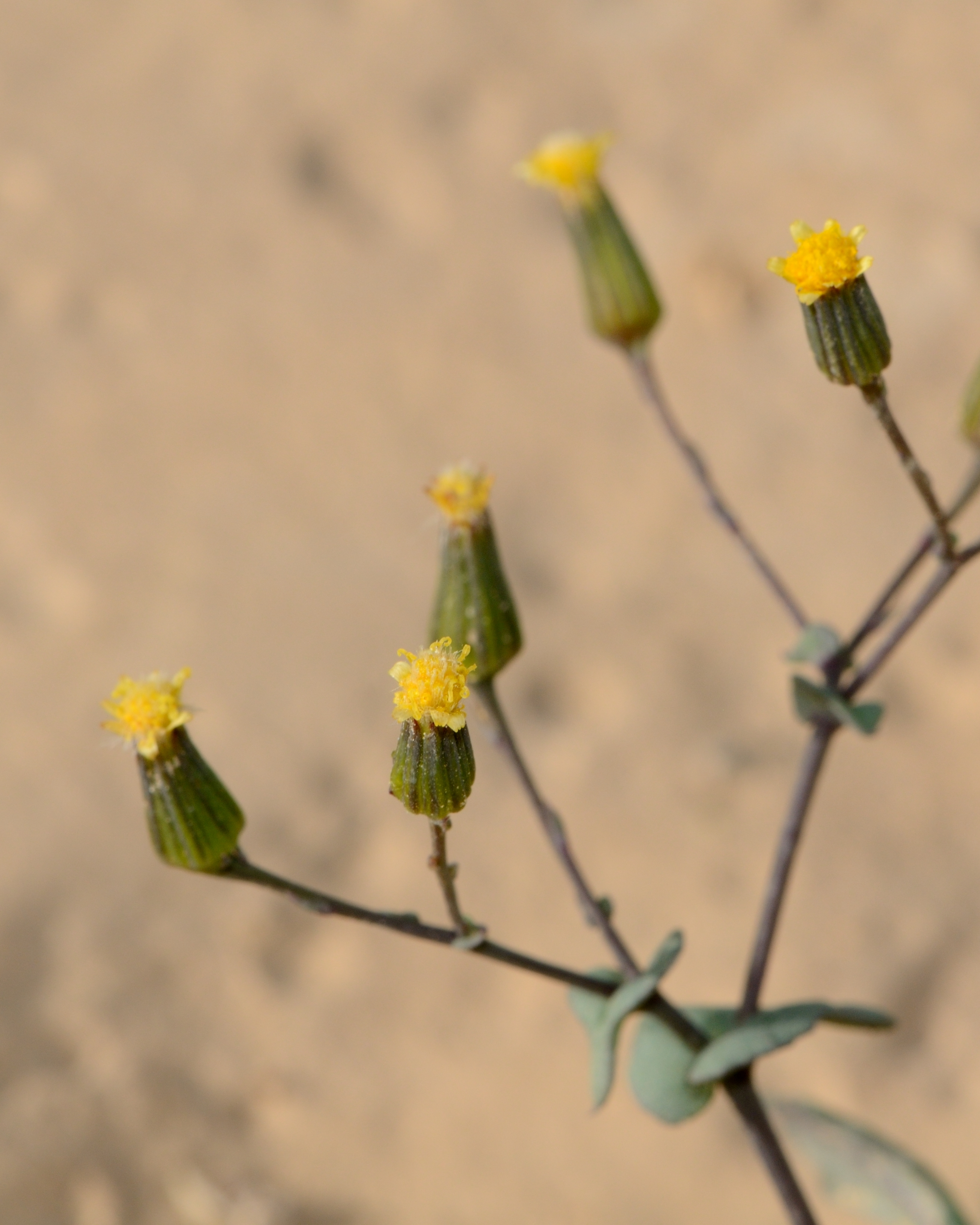 Senecio flavus (Decne.) Sch.Bip., Negev, Israel, February 8, 2013.